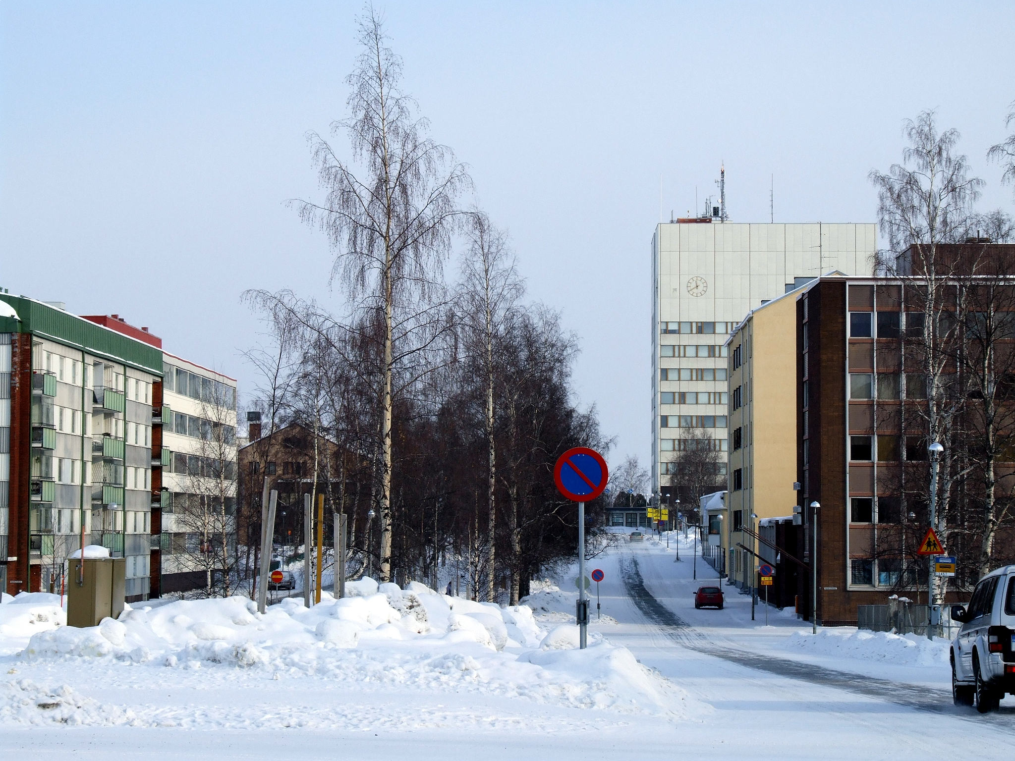 Meripuistokatu street in Kemi, Finland. The tall building in the background is the Kemi City Hall.